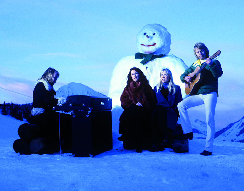 ABBA performs "Chiquitita" in Switzerland for the 1979 Music for UNICEF Concert.